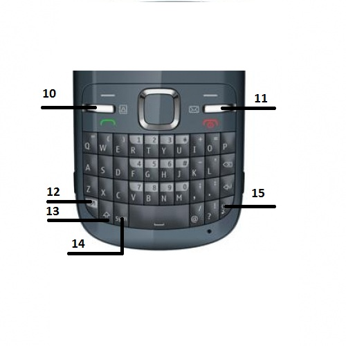 Daulet